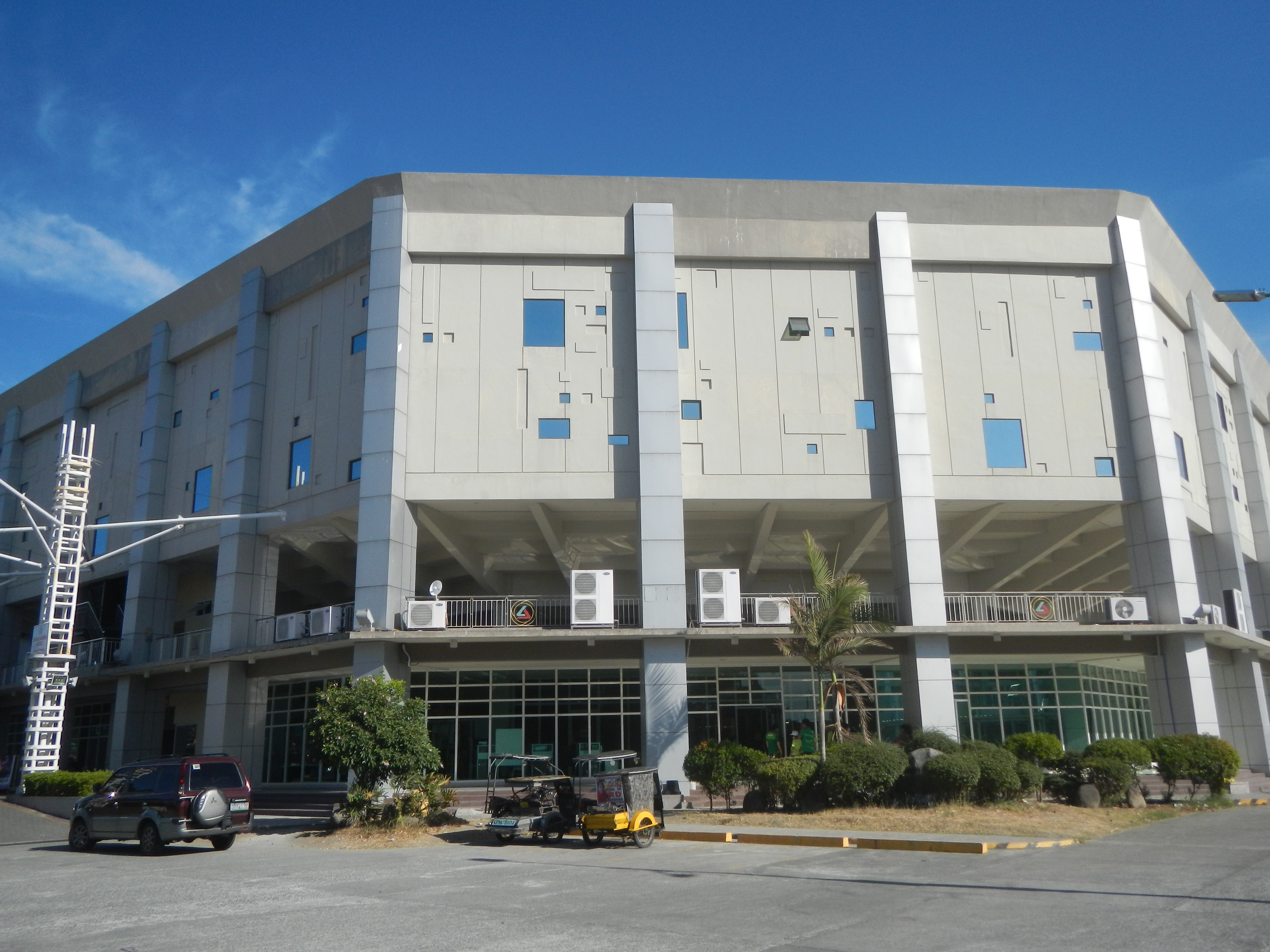 Jose Rizal monument (Biñan City) Biñan City Hall Complex memorials of Encarnacion Alzona Hunters ROTC Cayo Catco Alzona Ambrosio Rianzares Bautista; Alonte Sports Arena Biñan Football Stadium Zapote, Biñan City Sto. Tomas-Zapote Bridge, Biñan City in Barangay Sto. Tomas (Calabuso) 14°18'38"N 121°4'4"E Zapote 14°18'57"N 121°4'48"E Platero 14°19'23"N 121°5'41"E San Antonio 14°19'58"N 121°5'23"E Santo Niño 14°19'22"N 121°5'0"E Soro-Soro 14°19'35"N 121°3'39"E Biñan City of Biñan, Laguna; Legislative district of Biñan (Note: Judge Florentino Floro, the owner, to repeat, Donor Florentino Floro of all these photos hereby donate gratuitously, freely and unconditionally all these photos to and for Wikimedia Commons, exclusively, for public use of the public domain, and again without any condition whatsoever).